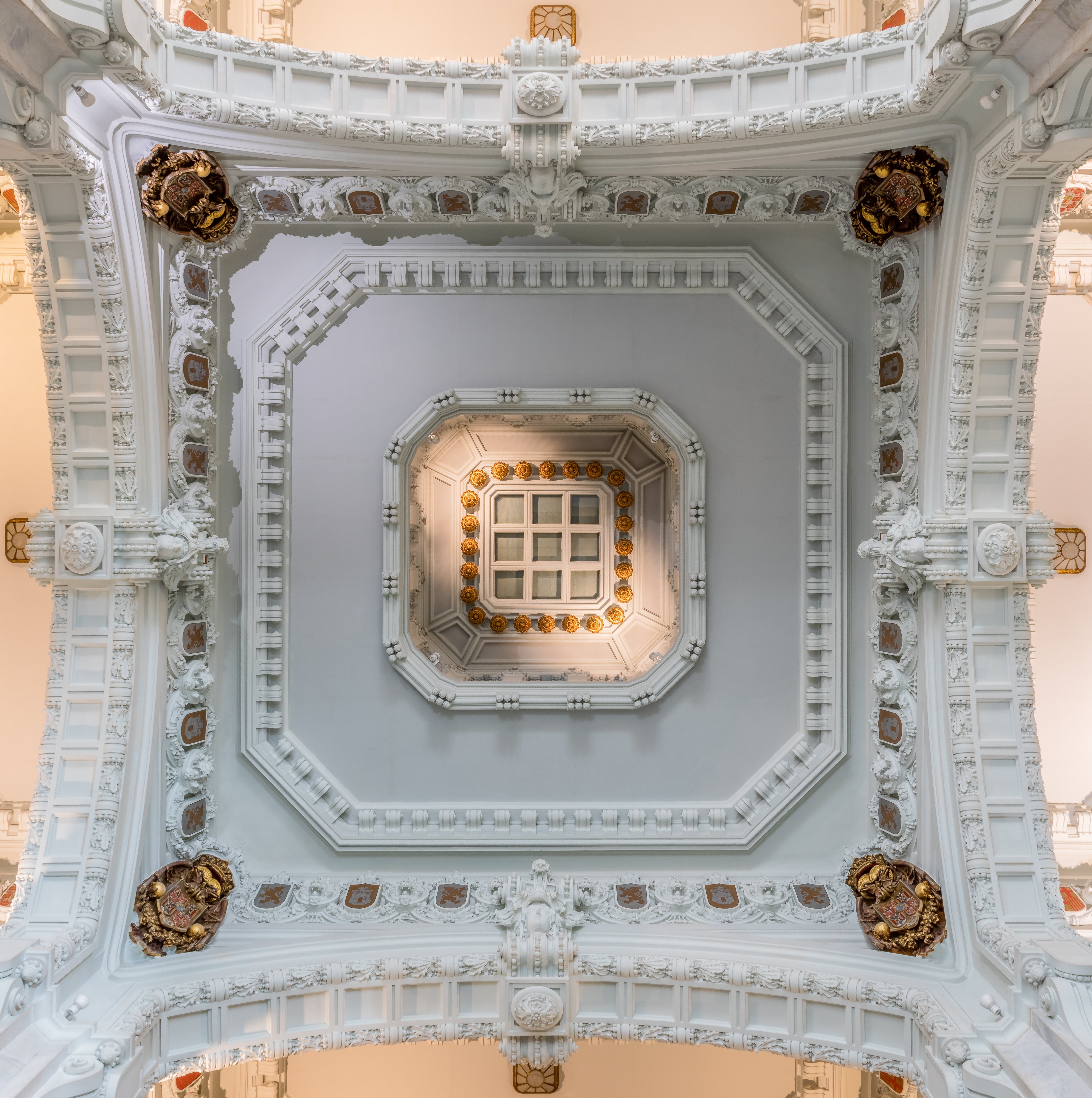 Communications Palace, Cybele Square, Madrid, Spain